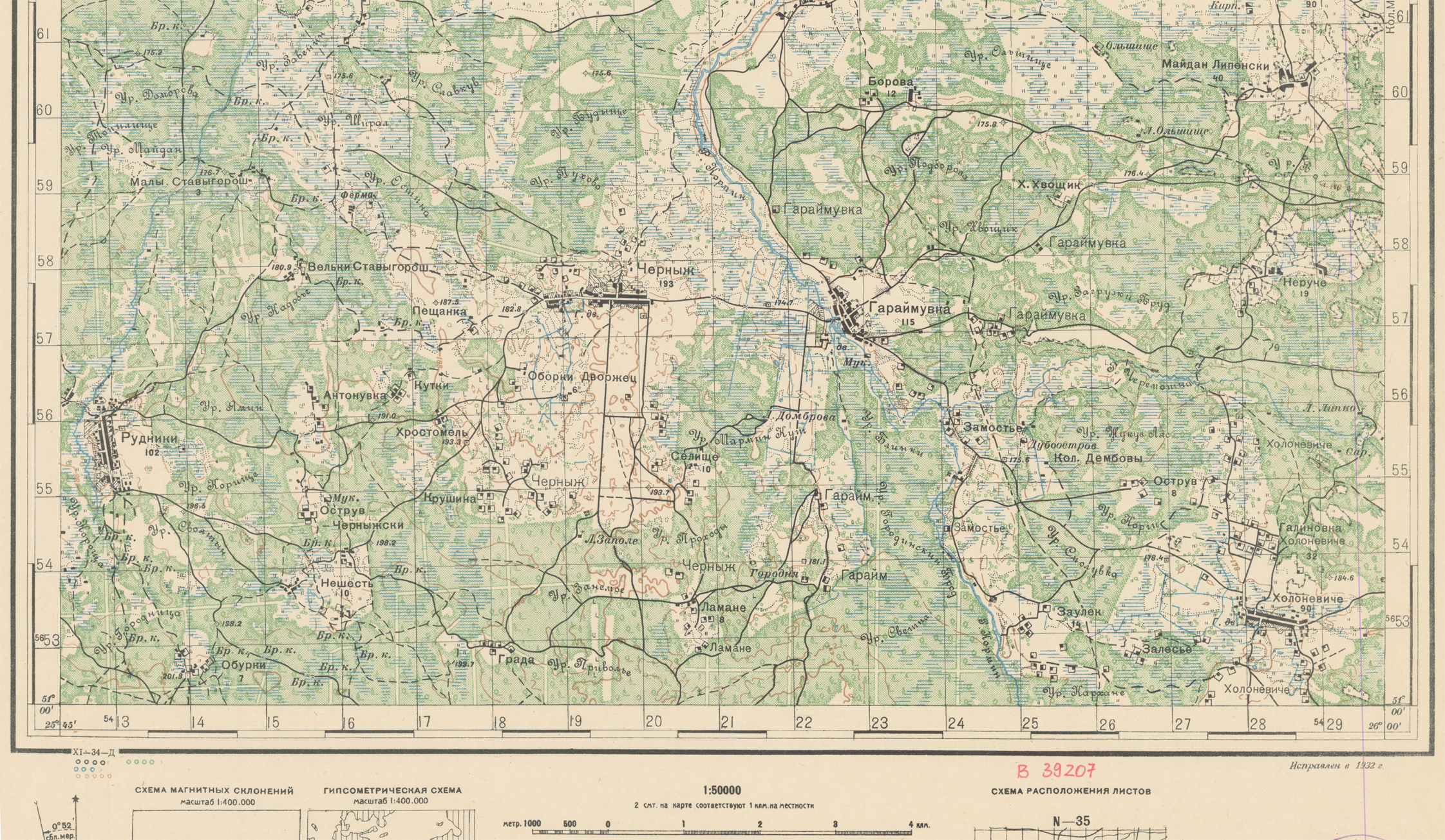 Росія, РККА, 1:50000, 1910-1930рр